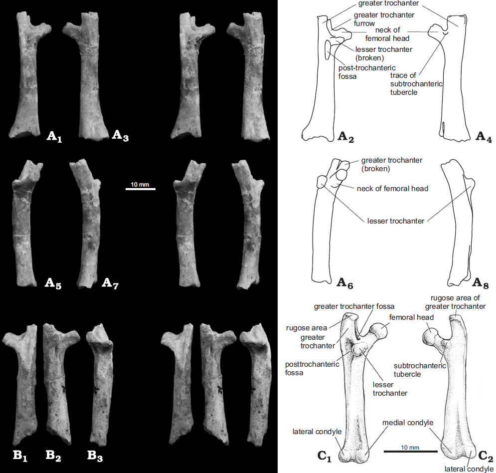 Multituberculate mammal Catopsbaatar catopsaloides (Kielan−Jaworowska, 1974), PM 120/107, Upper Cretaceous, red beds of Hermiin Tsav, Hermiin Tsav I locality, Gobi Desert, Mongolia. Incomplete femora. A. Left femur (no. 54 in Fig. 1B) in ventral (A1, A2), dorsal (A3, A4), medial (A5, A6), and lateral (A7, A8) views. B. Right femur (no. 41 in Fig. 1A and 1B), in ventral (B1), dorsal (B2), and medial (B3) views. C. Reconstruction of multituberculate femur based on Kryptobaatar, Nemegtbaatar, and Eucosmodon, shown for comparison, in ventral (C1) and dorsal (C2) views. Stereo−pho− tographs (A1, A3, A5, A7, B1–B3) and explanatory drawings (A2, A4, A6, A8).